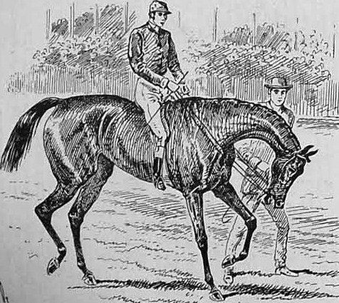 British racehorse Busybody, parading before the Epsom Oaks, from Illustrated London News, May 1884.